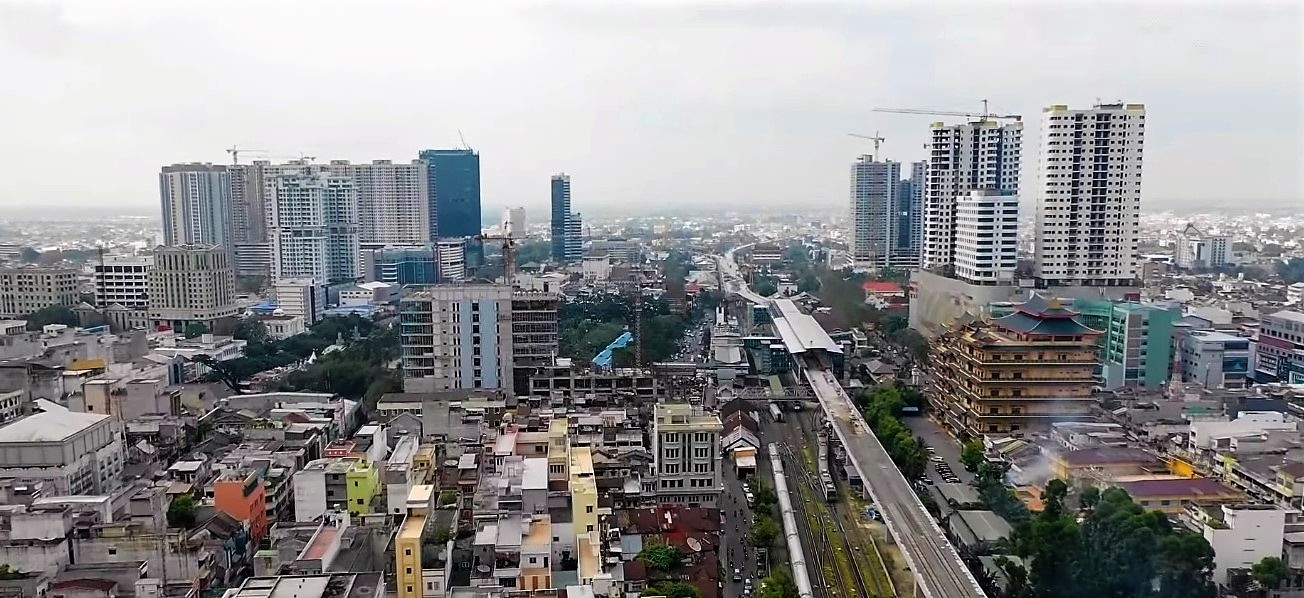 The downtown of Medan in January 2019